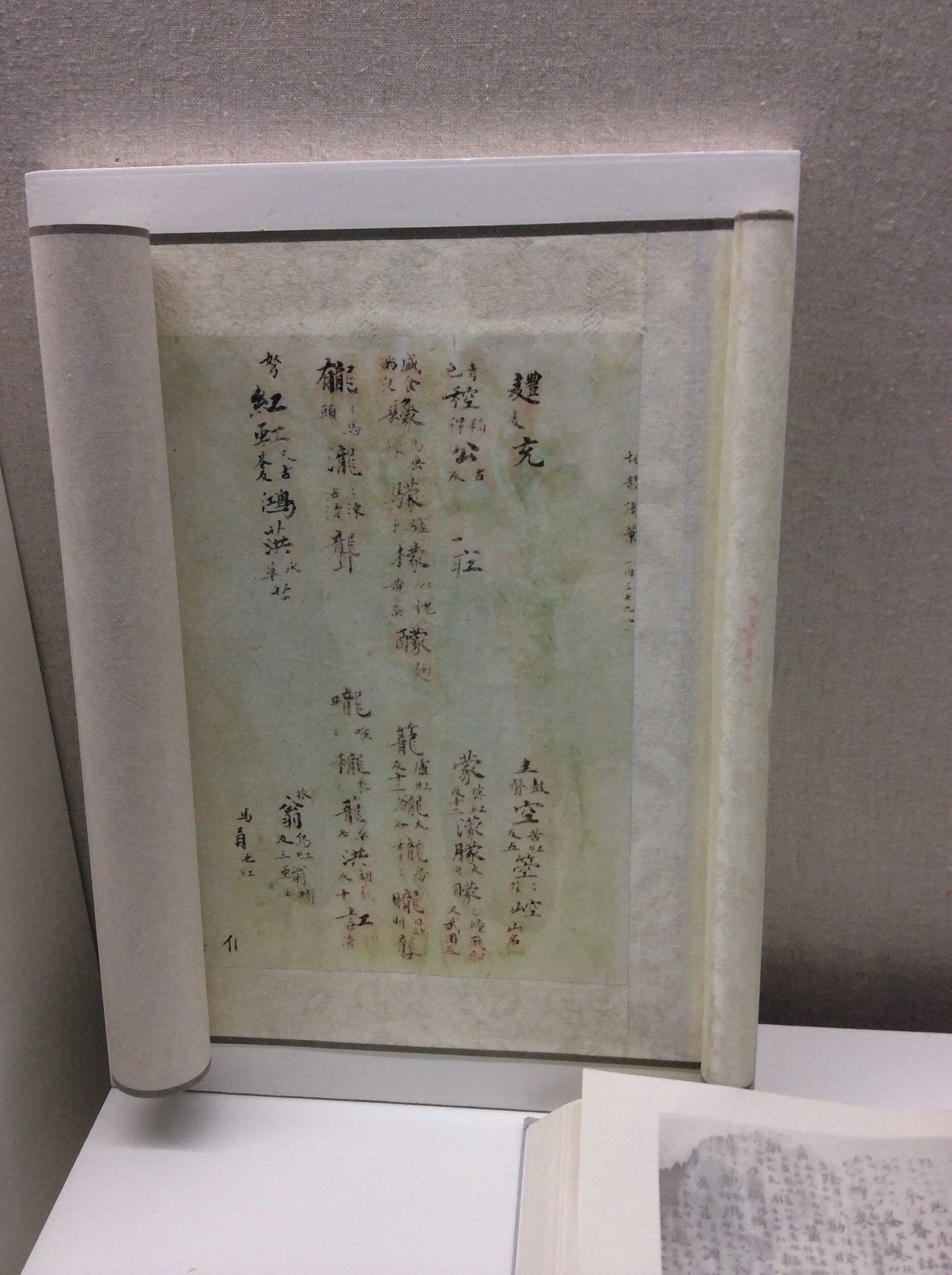 Qieyun (切韻) exhibit in the Chinese Dictionary Museum, on the grounds of Huangcheng Xiangfu